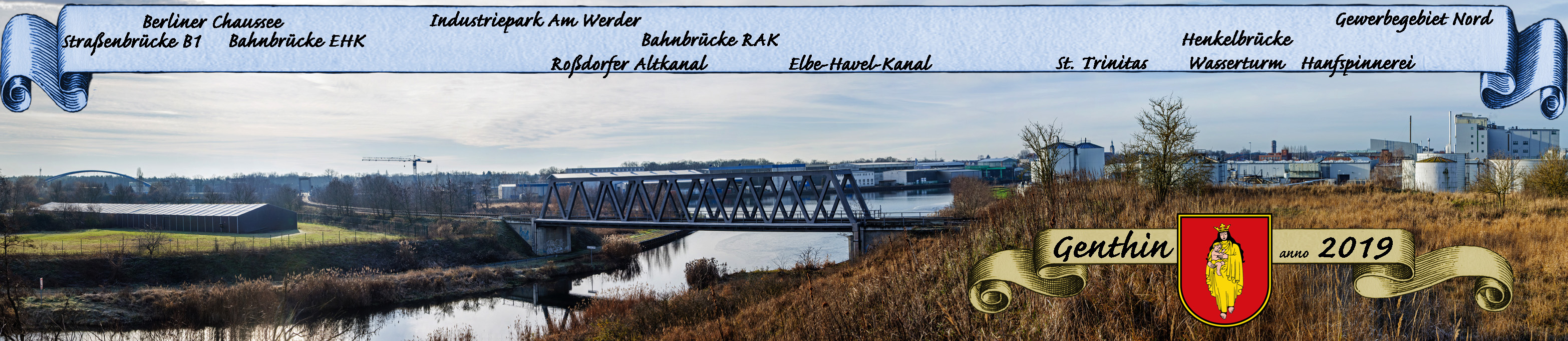 Elbe-Havel Canal, bridges and commercial areas of Genthin